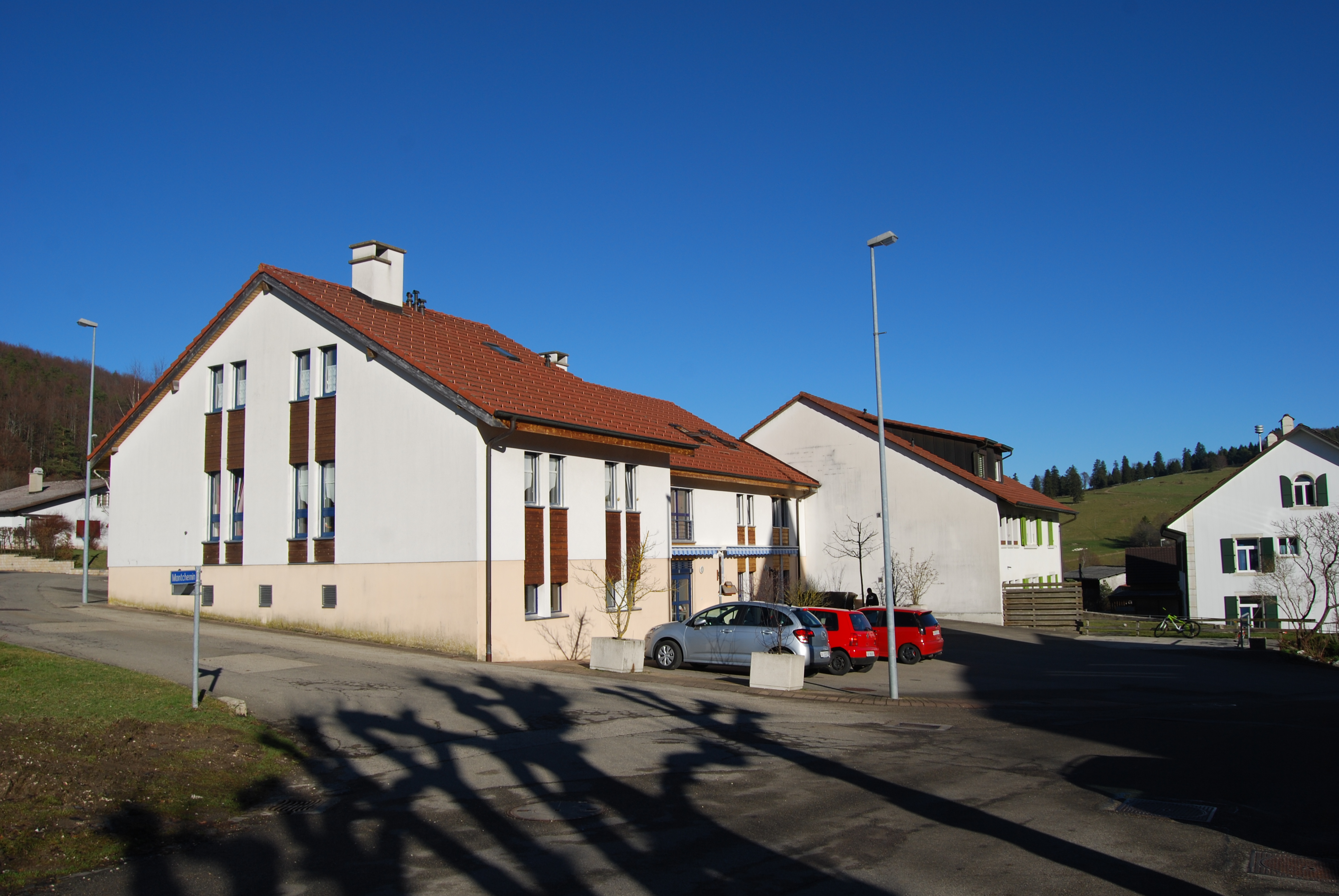 Rebeuvelier, canton of Jura, SwitzerlandEsperanto: Rebeuvelier, Kantono Ĵuraso, Svislando